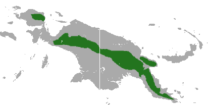 Long-fingered Triok (Dactylopsila palpator) range